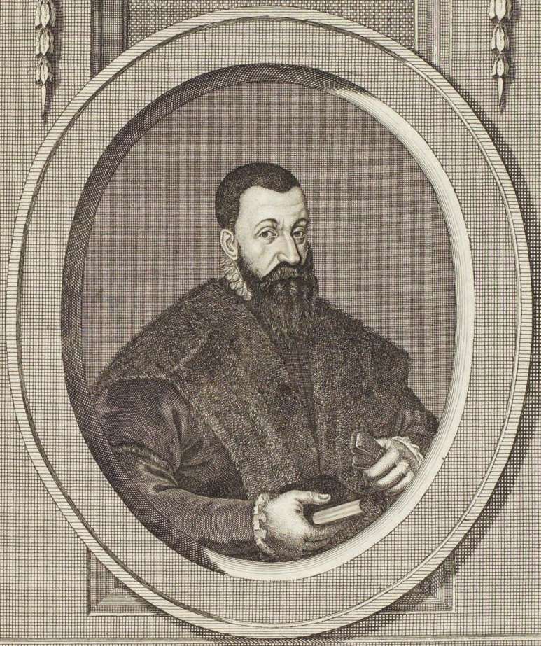 Engraved portrait of Laurentius Kirchhoff, in: in: Monumenta inedita rerum Germanicarum praecipue Cimbriacarum et Megapolensium : quibus varia antiquitatum, historiarum, legum iuriumque Germaniae, speciatim Holsatiae et Megapoleos vicinarumque regionum argumenta illustrantur, supplentur et stabiliuntur ; cum tabulis aeri incisis / e codicibus ... studuit ... et cum praefatione instruxit Ernestus Joachimus de Westphalen .. Band 3, Lipsiae: Martin 1741